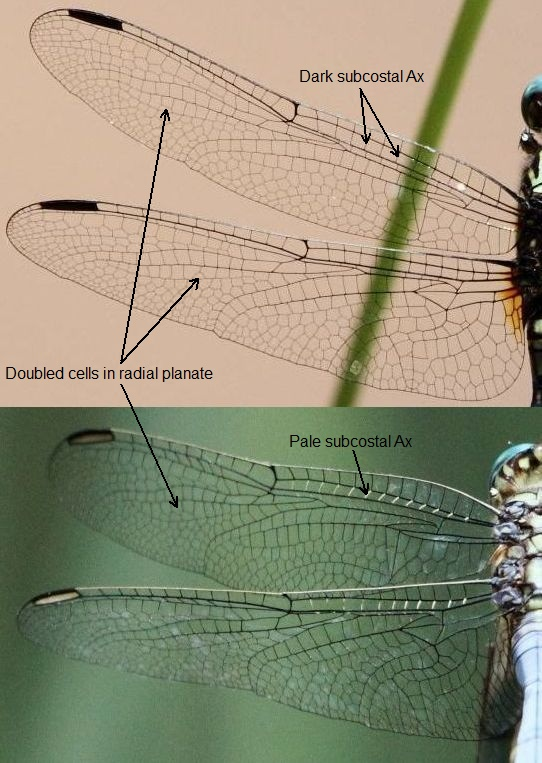 In south-eastern Africa, Orthetrum julia falsum and Orthetrum stemmale appear similar. The important differences are in wing details shown in these photographs. O. julia falsum (top) has dark subcostal Ax and has one row of cells in the radial planate (generally less than 10 cells doubled - summed over the radial planates of the four wings). This example shows a single doubled cell on each wing. O. stemmale (bottom) has pale subcostal Ax and usually at least ten cells doubled in total over the four wings - this example shows three doubled cells in the radial planate of the forewing. The pterostigma of O. julia falsum is generally dark, whereas that of O. stemmale is pale.